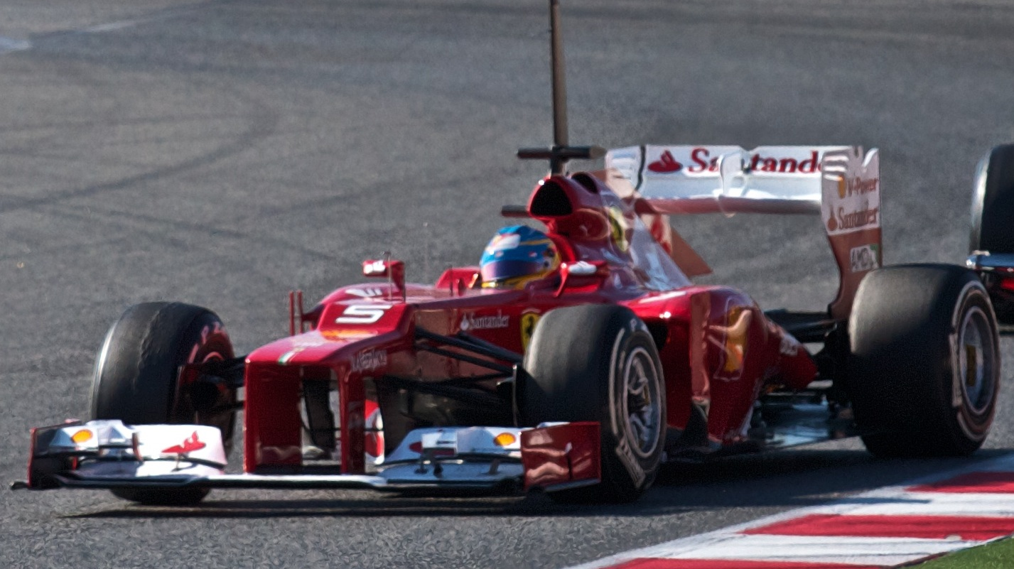 Lewis Hamilton chases Fernando Alonso down at the final test in Barcelona.